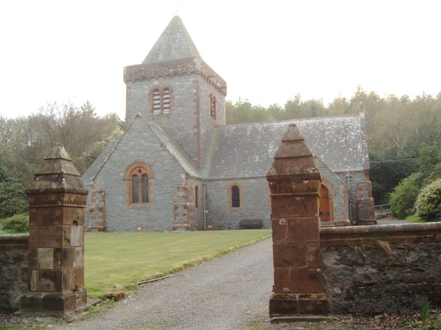 Southwick Parish Church at Caulkerbush From the internet: Church of Scotland. Standing by woodland just outside the policies of Southwick House, a stone church of local grey granite with dressings of red sandstone. By Peddie & Kinnear 1891, a mixture of Early Christian and Norman. Its crossing tower was derived from the 14th-century tower of St Monans Parish Church. A wagon roof over the nave, the chancel arch enriched with chevron decoration. On either side of the chancel arch, a neo-Norman font by Cox & Buckley 1898 and a neo-Jacobean pulpit. Wrought iron Arts & Crafts light fittings, once for oil lamps. Late 19th-century stained glass. Organ replaced in May 1999 with Ahlborn SL100. A710 from Dumfries, turn right immediately over Southwick Bridge onto B793 Dalbeattie. Linked with Colvend and Kirkbean.